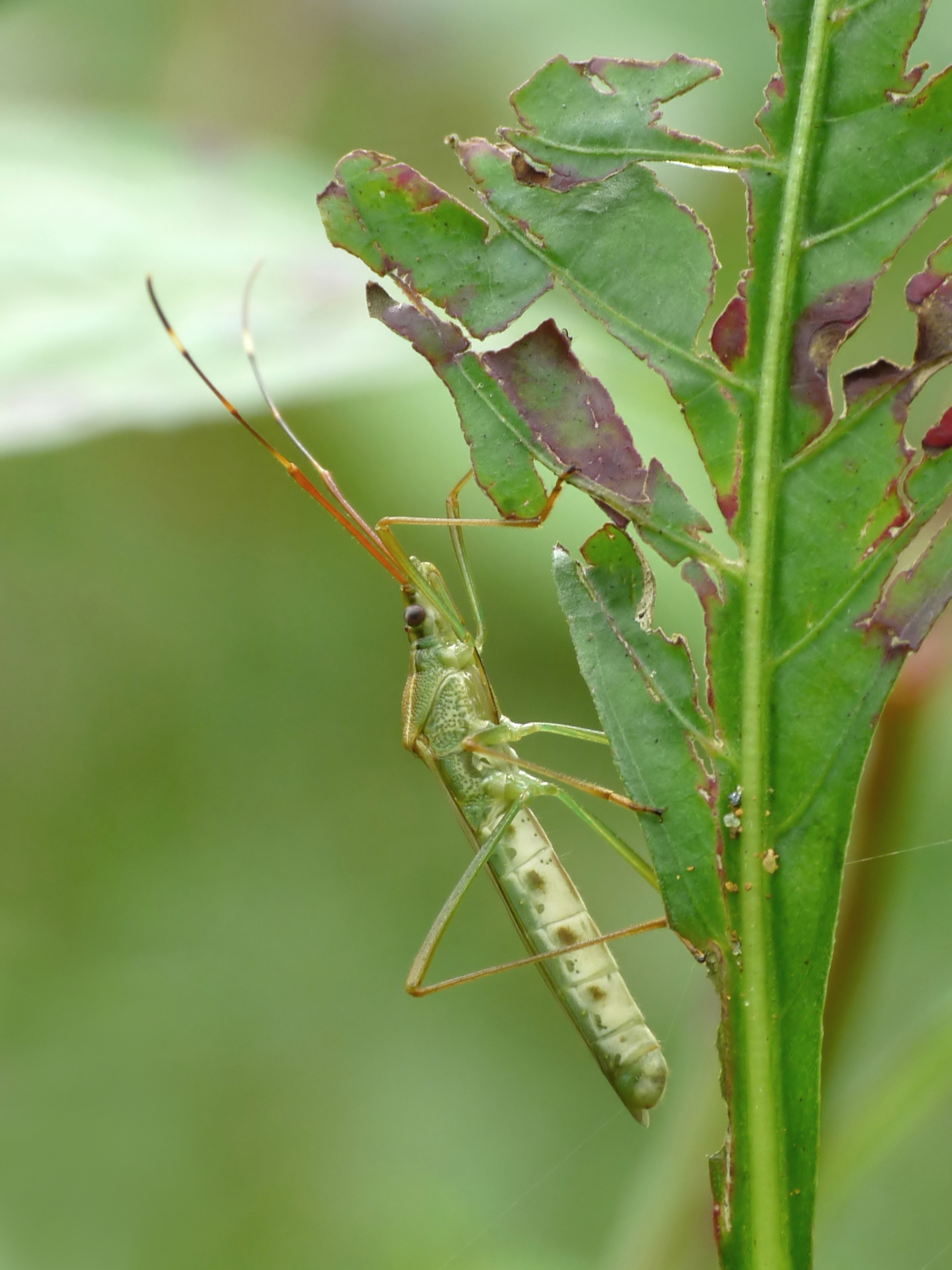 Alydidae, commonly known as broad-headed bugs, is a family of true bugs very similar to the closely related Coreidae (leaf-footed bugs and relatives). Alydidae are generally of dusky or blackish coloration. The upperside of the abdomen is usually bright orange-red. this color patch is normally not visible as it is covered by the wings; it can be exposed, perhaps to warn would-be predators of these animals' noxiousness: They frequently have scent glands that produce a stink considered to be worse than that of true stink bugs (Pentatomidae). The stink is said to smell similar to a bad case of halitosis. These bugs mainly inhabit fairly arid and sandy habitat, like seashores, heathland, steppe and savannas. Their main food is seeds, which they pierce with their proboscis to drink the nutritious fluids contained within. Some are economically significant pests, for example Leptocorisa oratorius on rice. This is probably a Leptocorisa oratorius species. Taken at Kadavoor, Kerala, India.